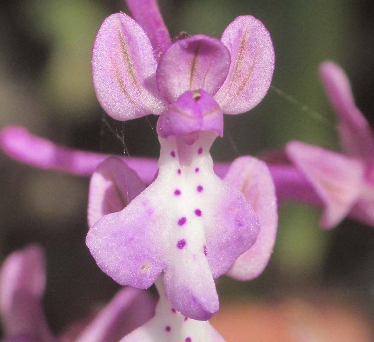 Orchis anatolica